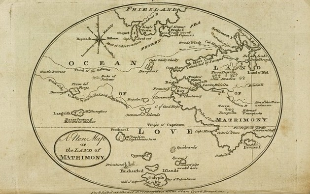 Frontispiece plate: 'A new map of the Land of Matrimony'. Imprint date from: London publishers and printers / by Philip A.H. Brown. Plate dated 1798 is from the1st ed. Printed for A. Milne. Publisher: London : printed for B. Crosby, & Co. Stationers Court, Ludgate Street., [1803-1815]. This unidentified manuscript matrimonial map. The Great Ocean of Love is full of hazards like the Rocks of Jealousy and the Shoals of Perplexity, and surrounded by the Islands of Perseverance and Obstinacy, Coquette Island with its Vanity Fort, and the dangerous Dead Lake of Indifference. An interesting site on land is Bachelor's Fort, located near the Gulf of Self Love.